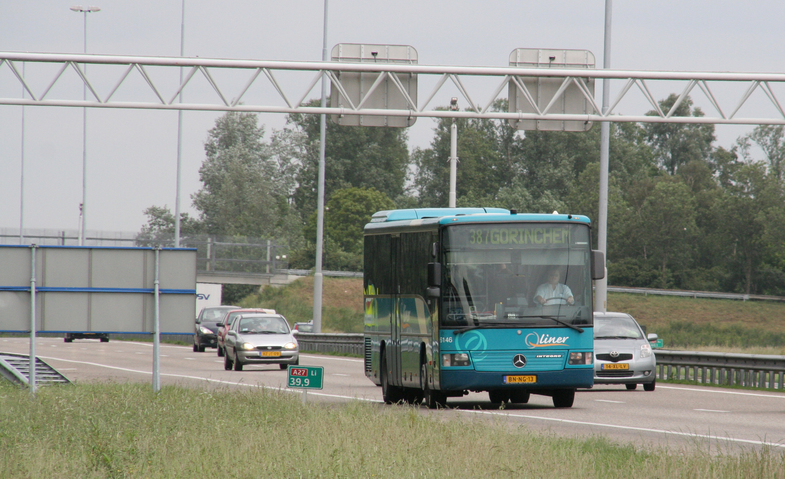 Qliner